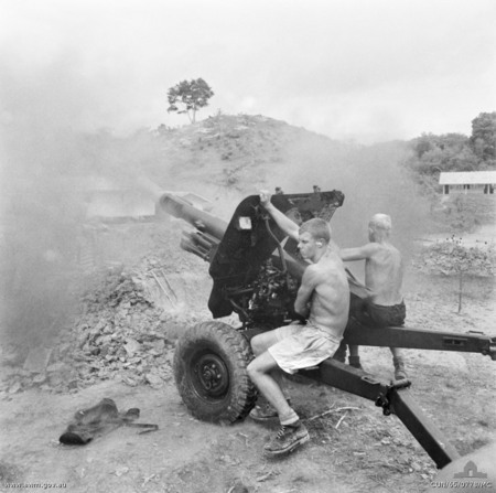 AWM Caption: An Australian artillery crew from the 102nd Field Battery, Royal Australian Artillery (RAA) engaging a target in North Borneo with a 105mm L5 Pack Howitzer. Identified, left to right: 54295 Lance Bombardier (L Bdr) J D Galbraith, of Hilton Park, WA; 213291 Gunner (Gnr) (later Captain) Keith Tucker, of Riverwood, NSW. The men are based at a forward company base close to the Sarawak-Kalimantan border. L Bdr Galbraith served in Malaya and Singapore during the Indonesian Confrontation in the early 1960s and he later served in South Vietnam with the 105th Field Battery, Royal Australian Artillery (RAA). Gnr Tucker served in South Vietnam with the 1st Field Regiment, Royal Australian Artillery (RAA) between 1966 and 1967 and with 12th Field Regiment, RAA during 1971.